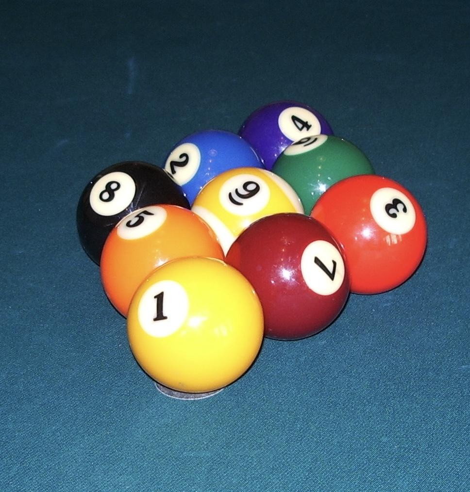 One of many valid racks in the pocket billiards (pool) game of nine-ball; the 1 ball is at the apex of the rack and is on the foot spot, and the 9 ball is in the middle, with all other balls placed randomly, and all balls touching.